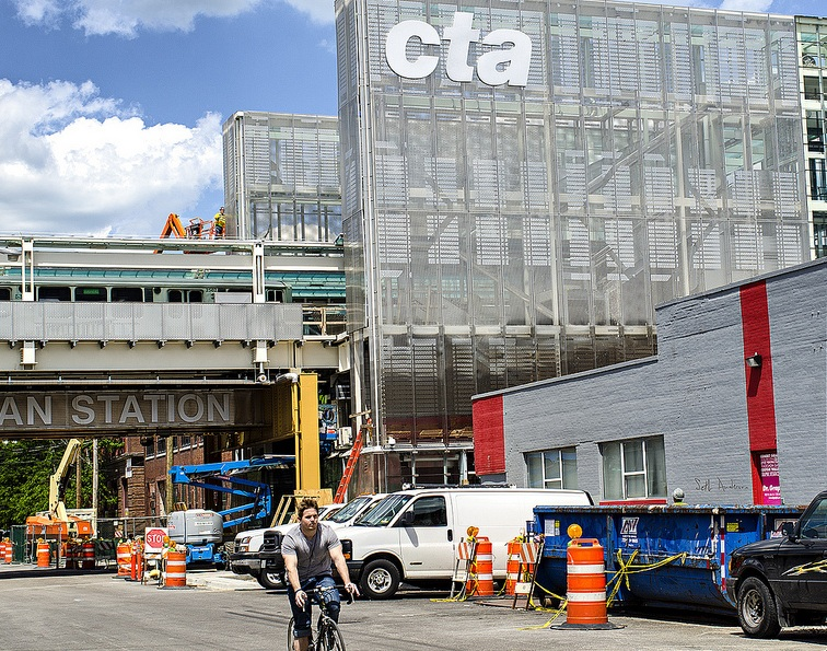 The Morgan CTA station in Chicago, on May 8, 2012, a few weeks before it opened.